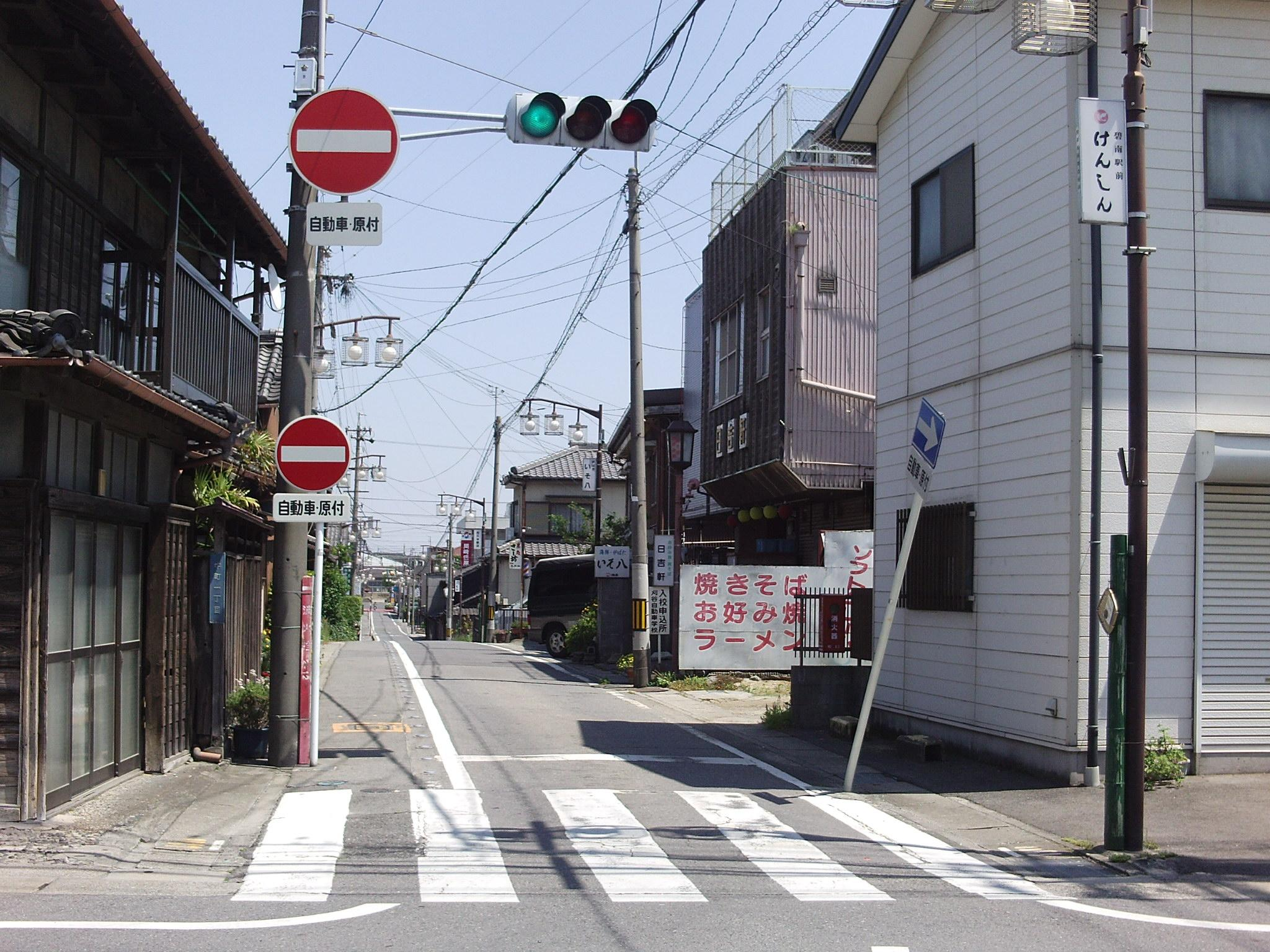 Ending point of Aichi prefectural road No.305 in Nakamachi 4-chome, Hekinan, Aichi.